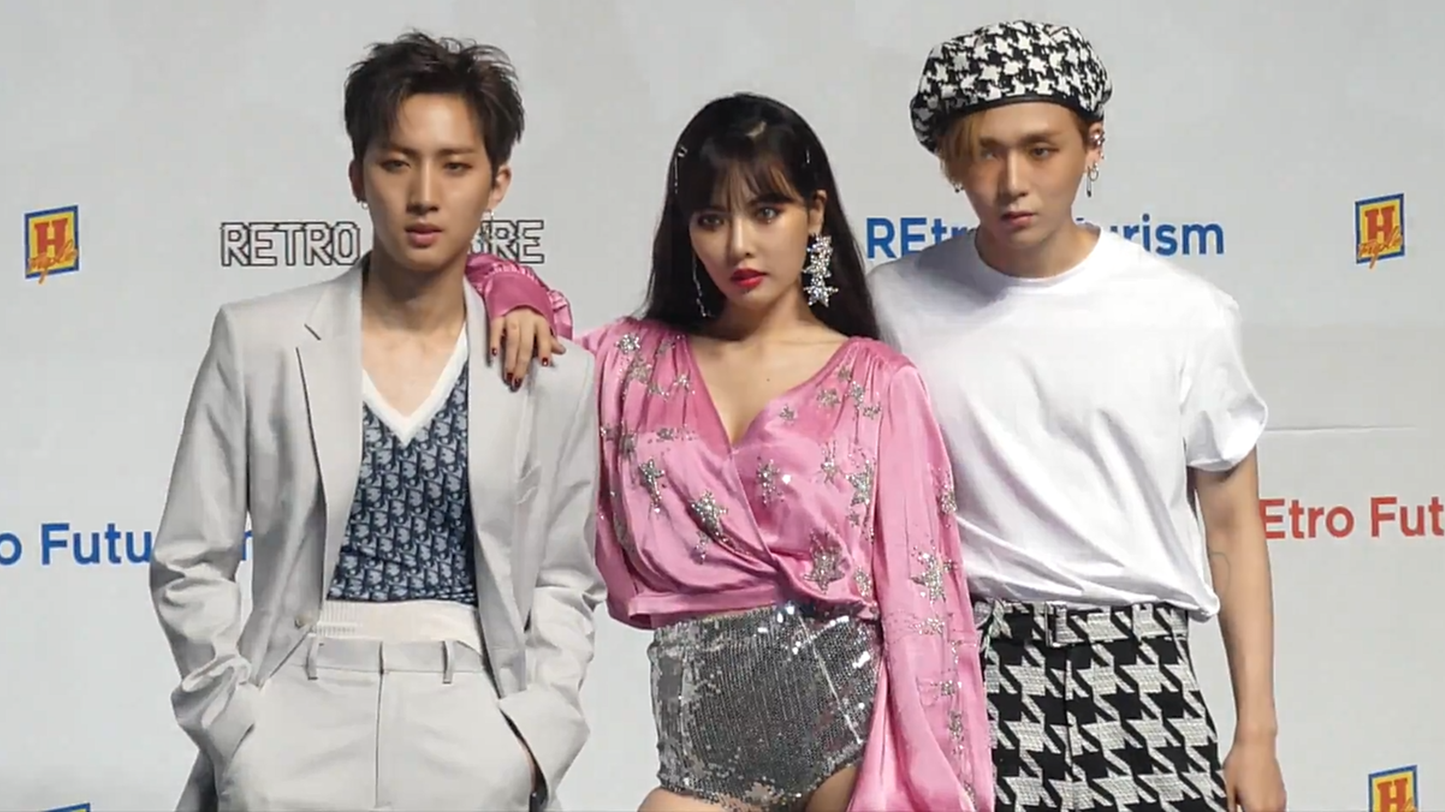 Triple H during the 'REtro Futurism' Showcase on July 18, 2018.